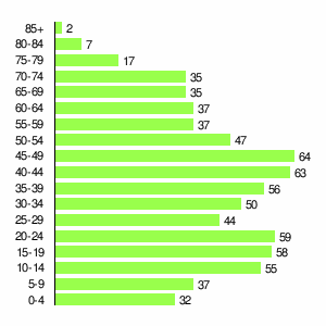 Age chart of Tuhovishta